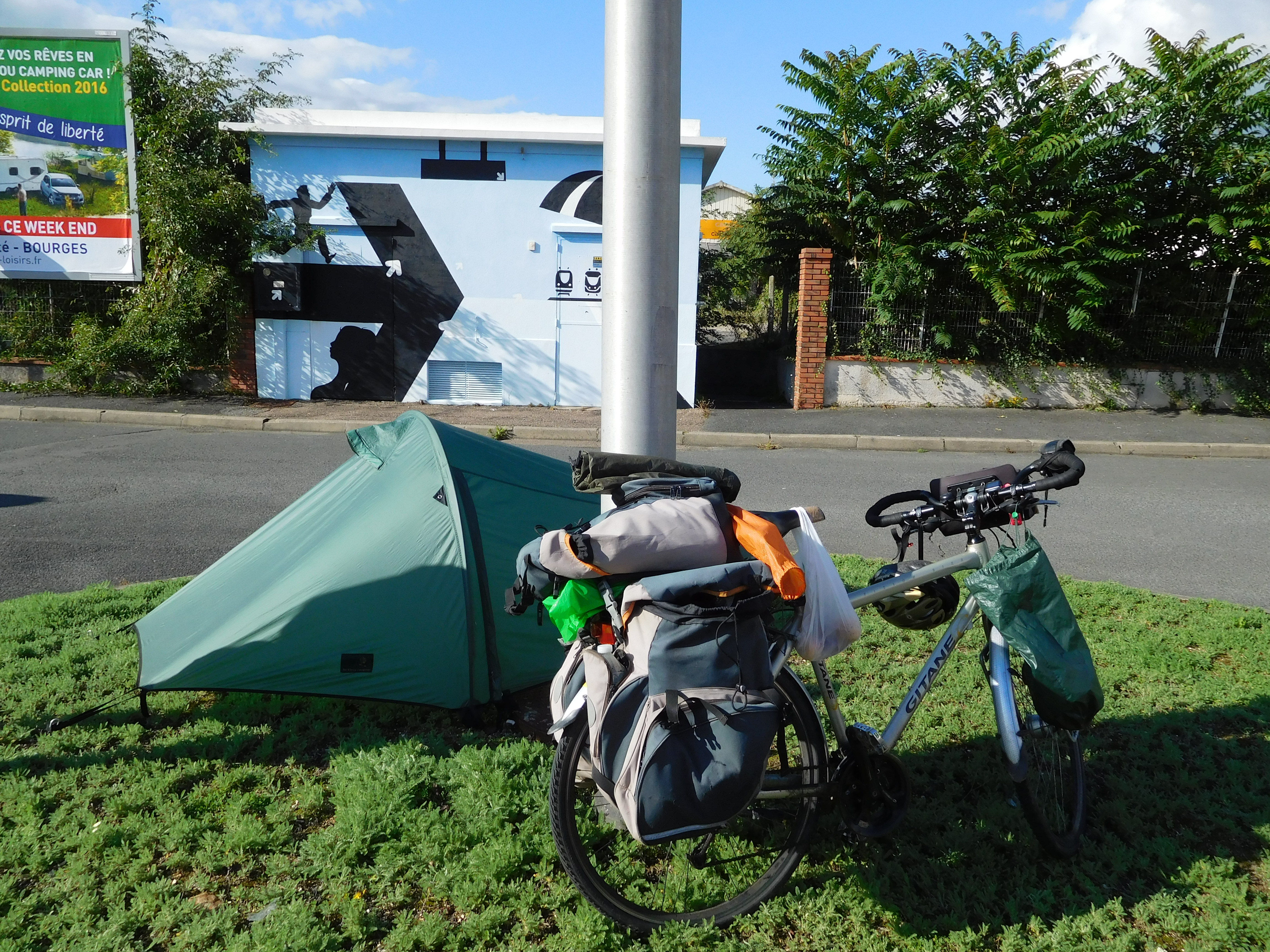 Break after a bike ride in Nièvre, before taking a train at the gare de Cosne-sur-Loire, France.